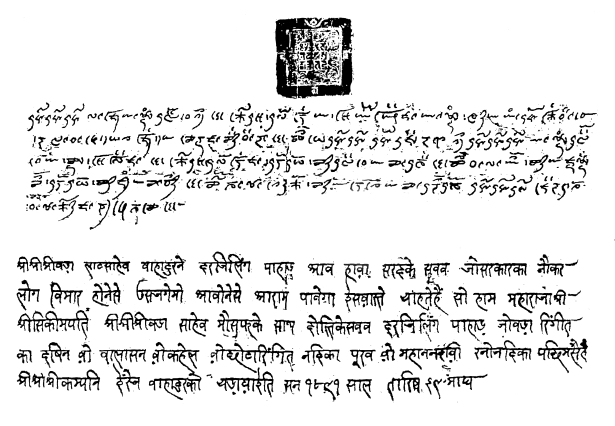 Probably the ‘Grant of Darjeeling’ is most widely known from the version in English given in the ‘Darjeeling’ volume of the series of ‘Bengal District Gazetteers’ (A.J. Dash ed., 1947); certainly it was through this version that I first came to know of ‘the Grant’: “ The Governor General having expressed his desire for the possession of the hill of Darjeeling on account of its cool climate, for the purpose of enabling the servants of his Government, suffering from sickness, to avail themselves of its advantages, I, the Sikkimputtee Rajah, out of friendship for the said Governor General; hereby present Darjeeling to the East India Company, that is all the land South of the Great Rangit river, east of the Balasun, Kahail and Little Rangit rivers and west of Rungno (Tista) and Mahanadi rivers” (pp.37-8).